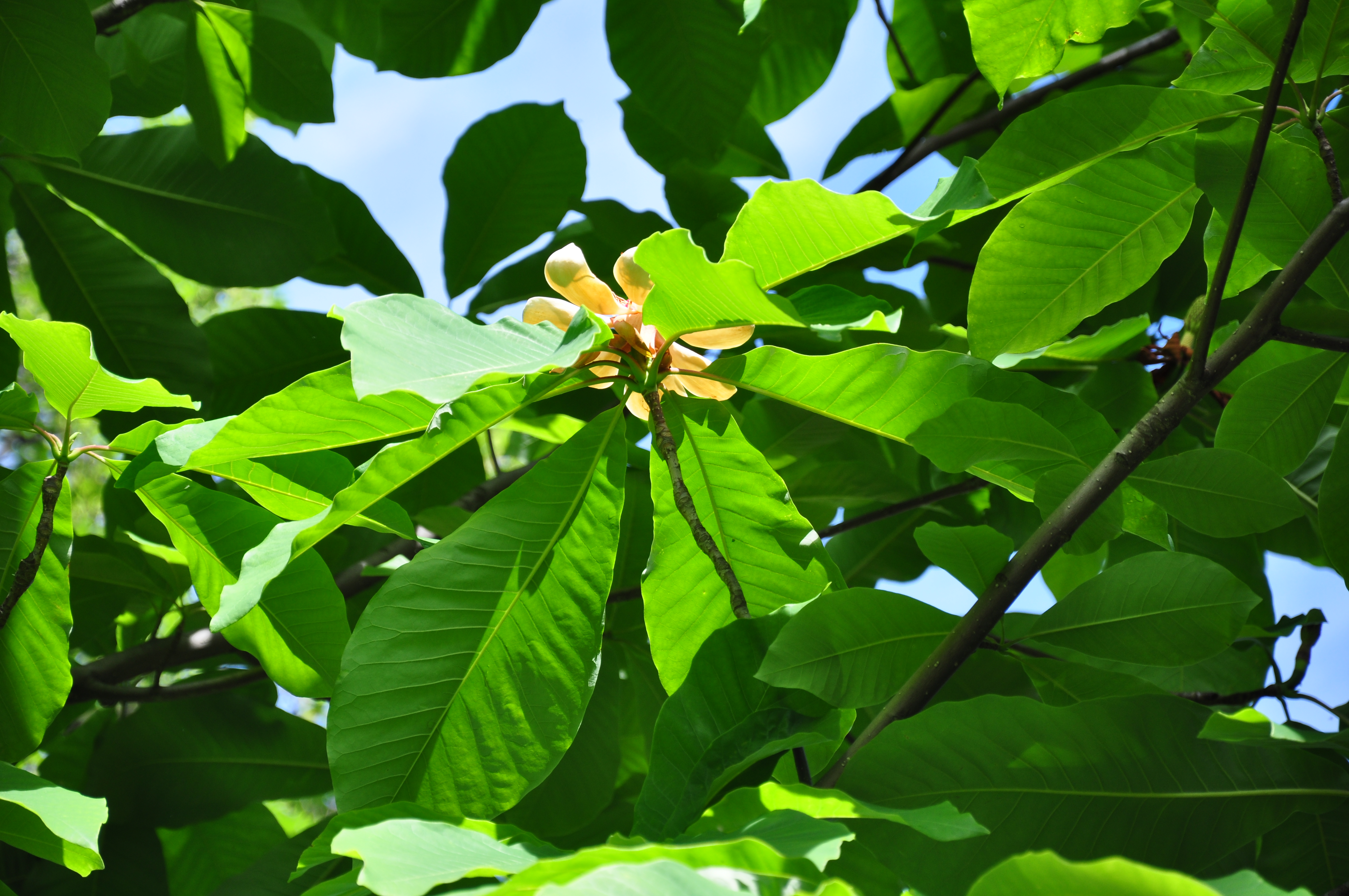 Magnolia obovata